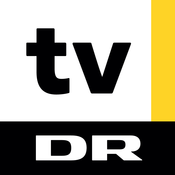 DR TV logo.